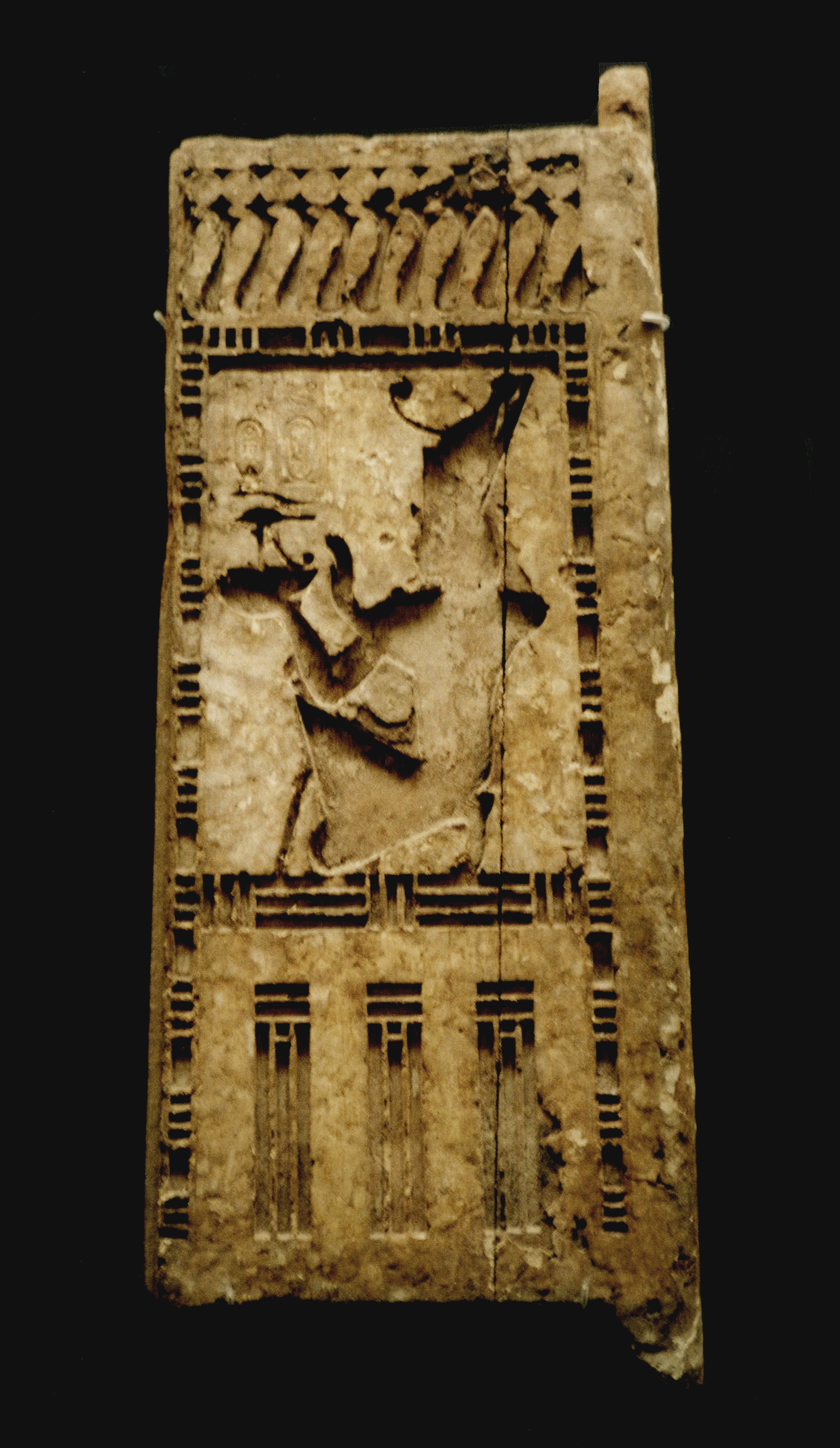 Door jamb of a small chapel with the image of King Seheruibre Pedubast III (ref: Jean Yoyotte, "Pétoubastis III", Revue d'Egyptologie 24 (1962): 216-223), making an offering. Material: Wood, originally covered with gold leaf and inlaid glass. Louvre Museum.